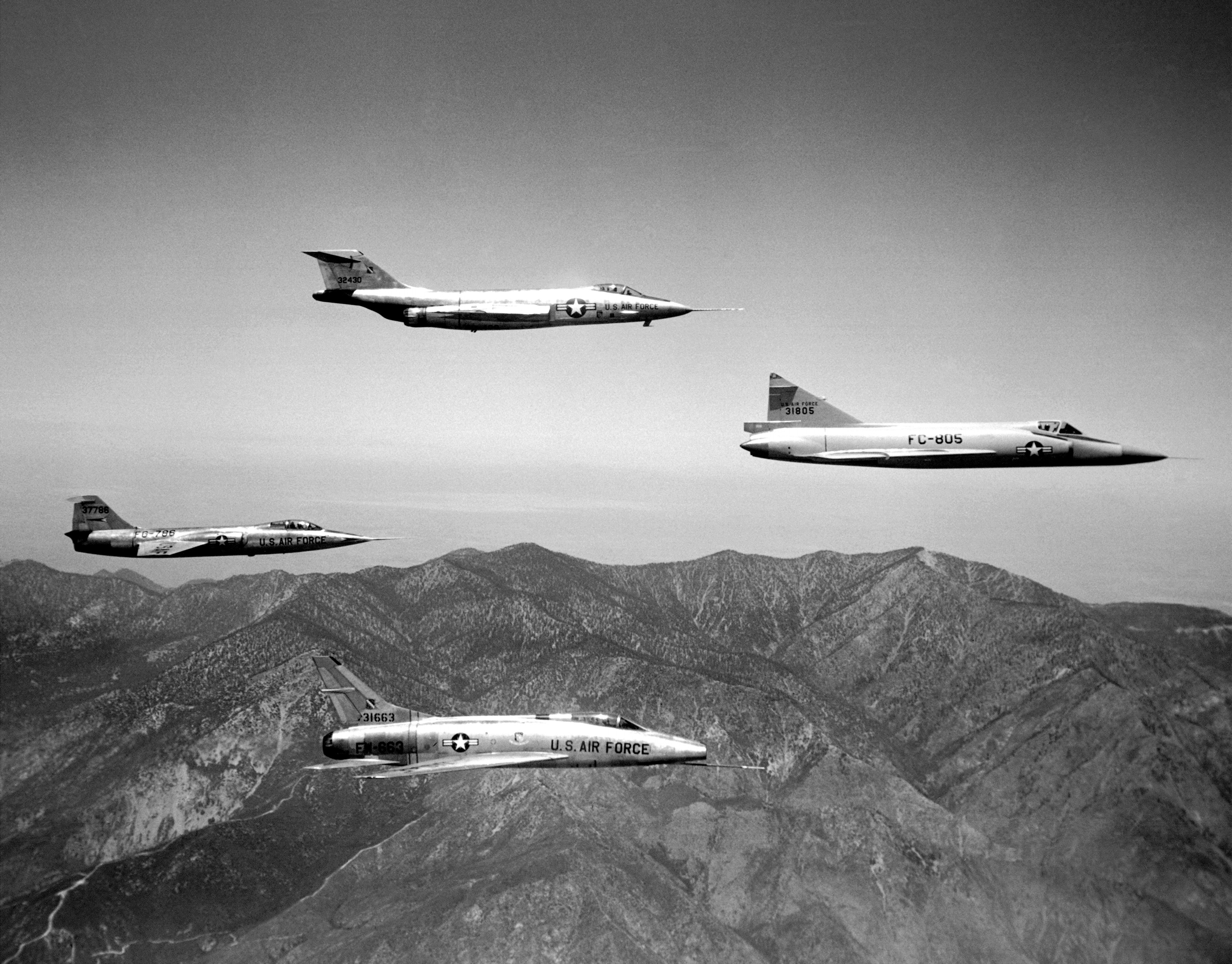 Four U.S. Air Force Century-series fighters in flight in 1957. These supersonic fighters were tested by the NACA Dryden Flight Research Center at Edwards Air Force Base, California (USA). The aircraft visible are: McDonnell F-101A-5-MC Voodoo (s/n 53-2430, top),Lockheed XF-104A Starfighter (53-7786, left). This aircraft crashed on 11 July 1957 due to an uncontrollable tail flutter. The pilot, Bill Park, ejected safely,Convair F-102A-20-CO Delta Dagger (53-1805, right),North American F-100A-20-NA Super Sabre (53-1663, bottom).